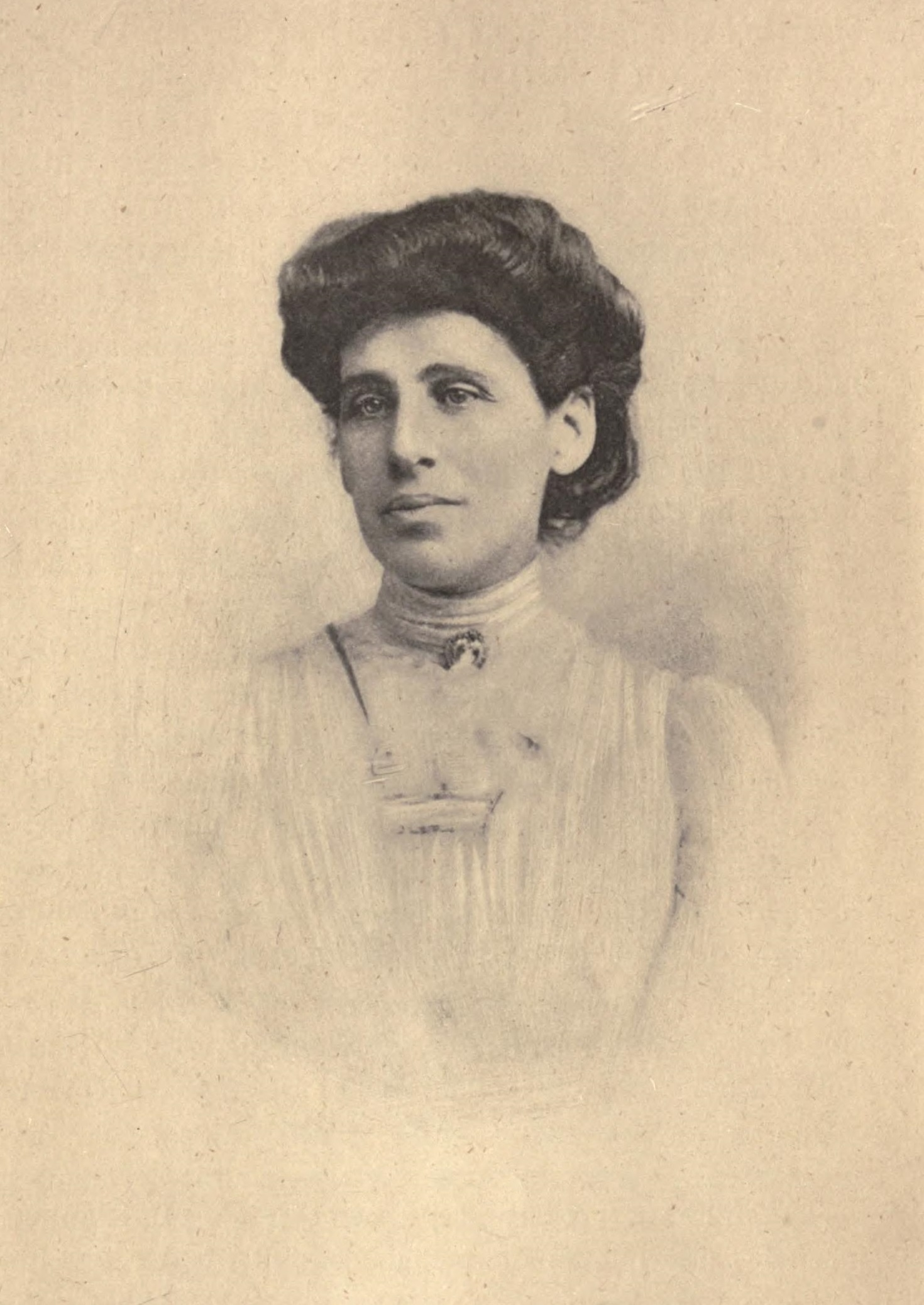 Edith Helen Sichel aged 25